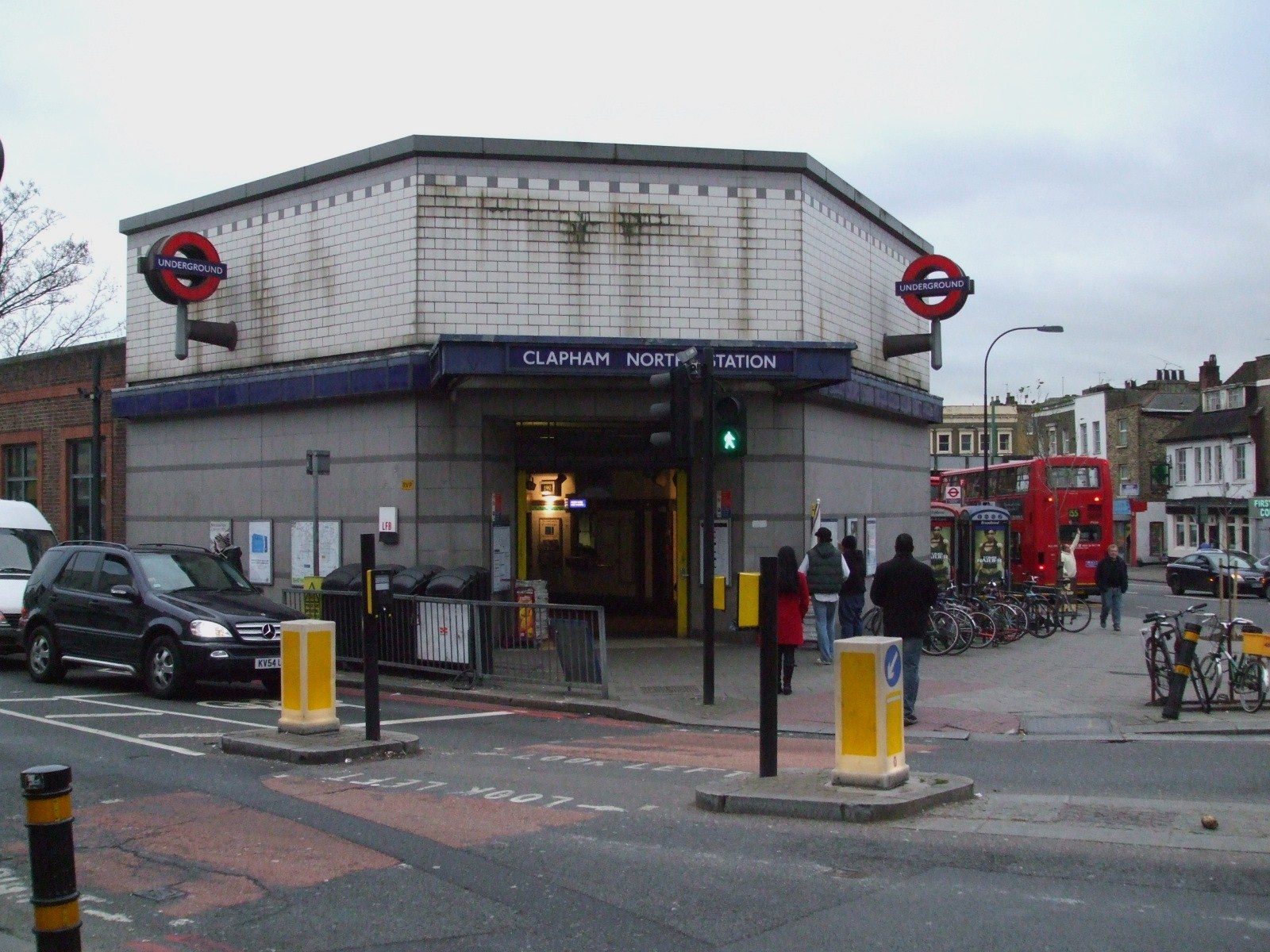 Clapham North tube station entrance